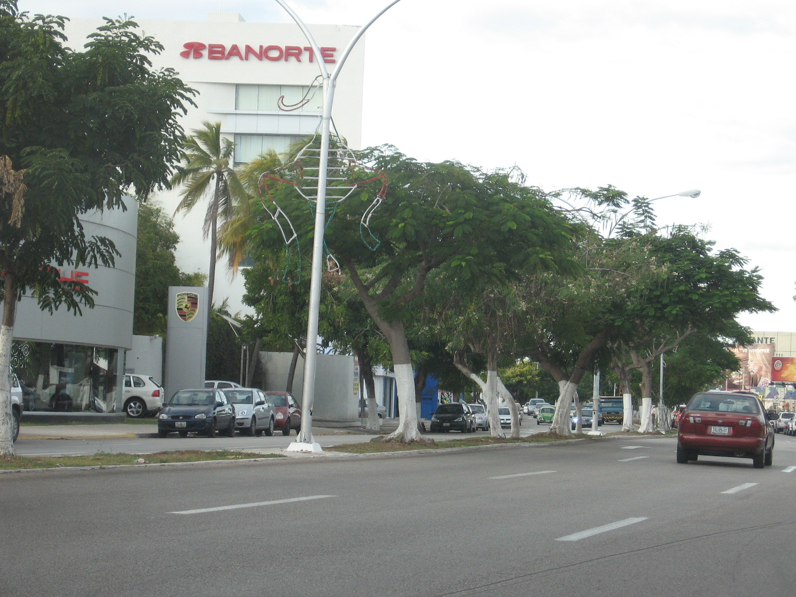 prolongacion de paseo de montejo zona norte 3